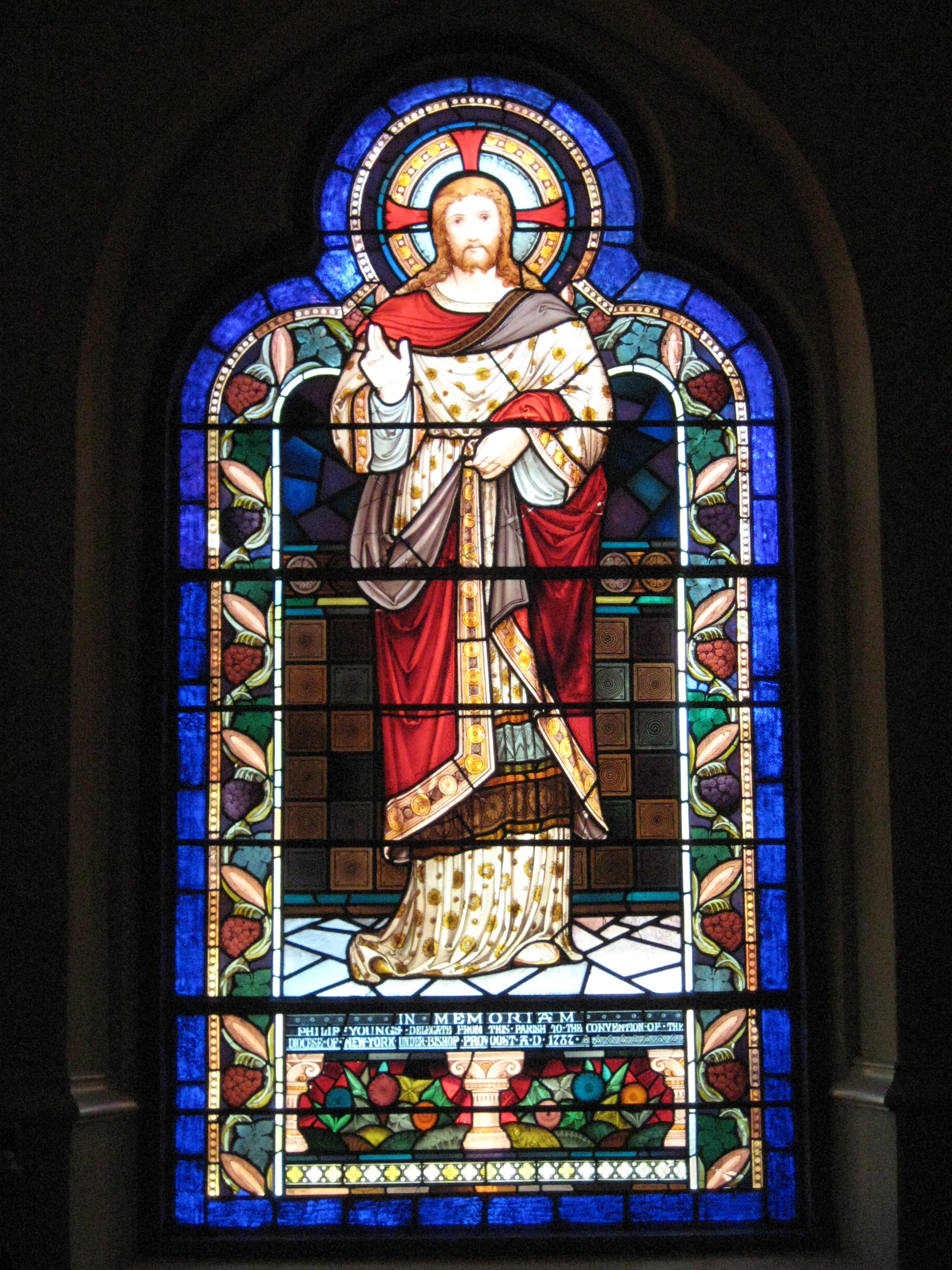 Christ Church, Oyster Bay, New York, window